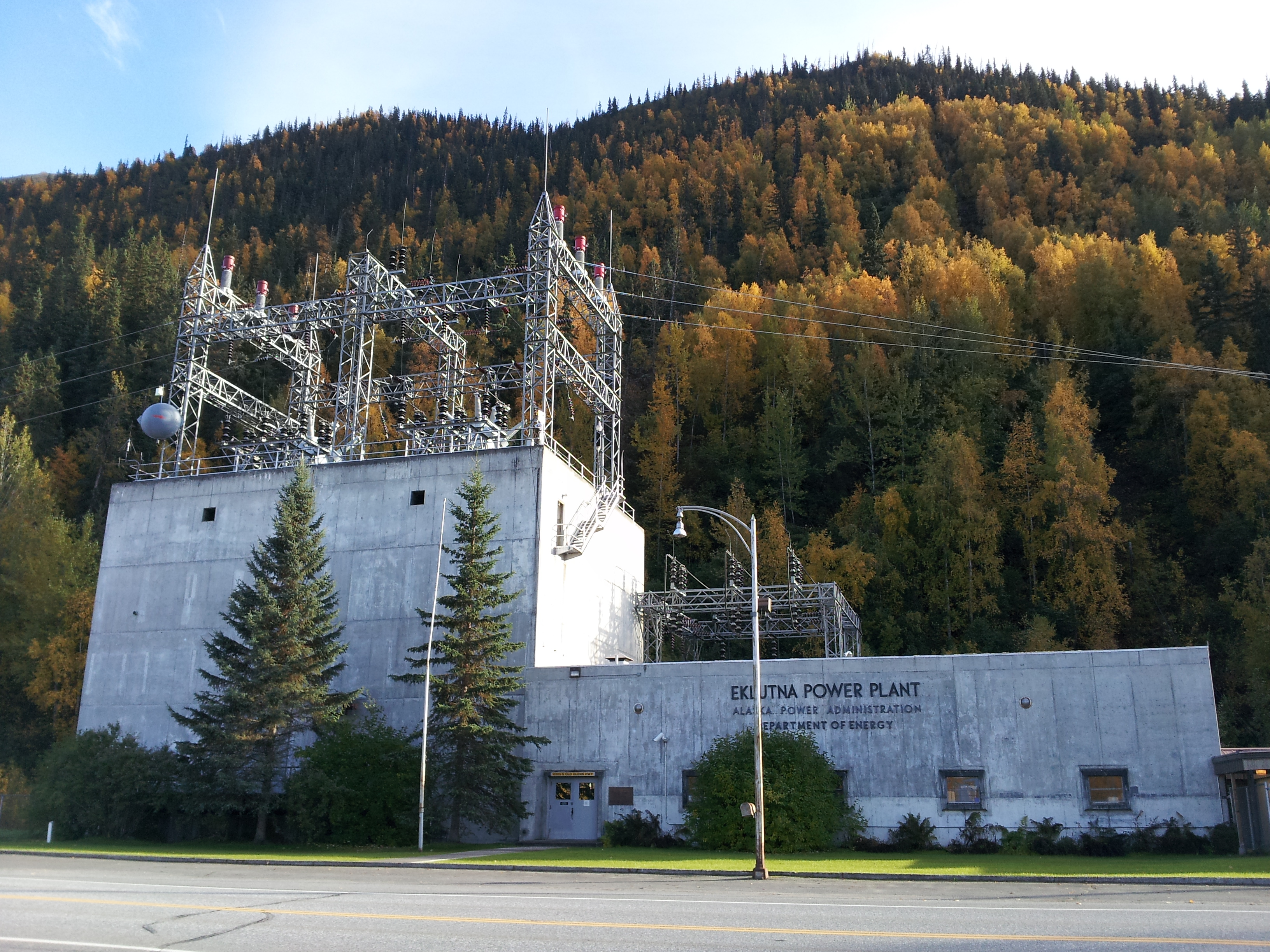 The modern Eklutna Power Plant; this is not the National Register-listed historic power station.